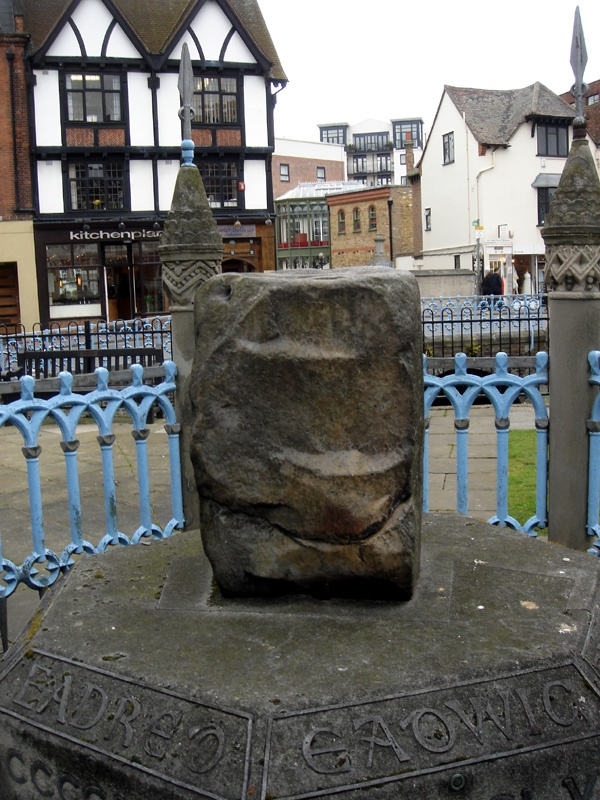 Coronation Stone, Kingtson-upon-Thames